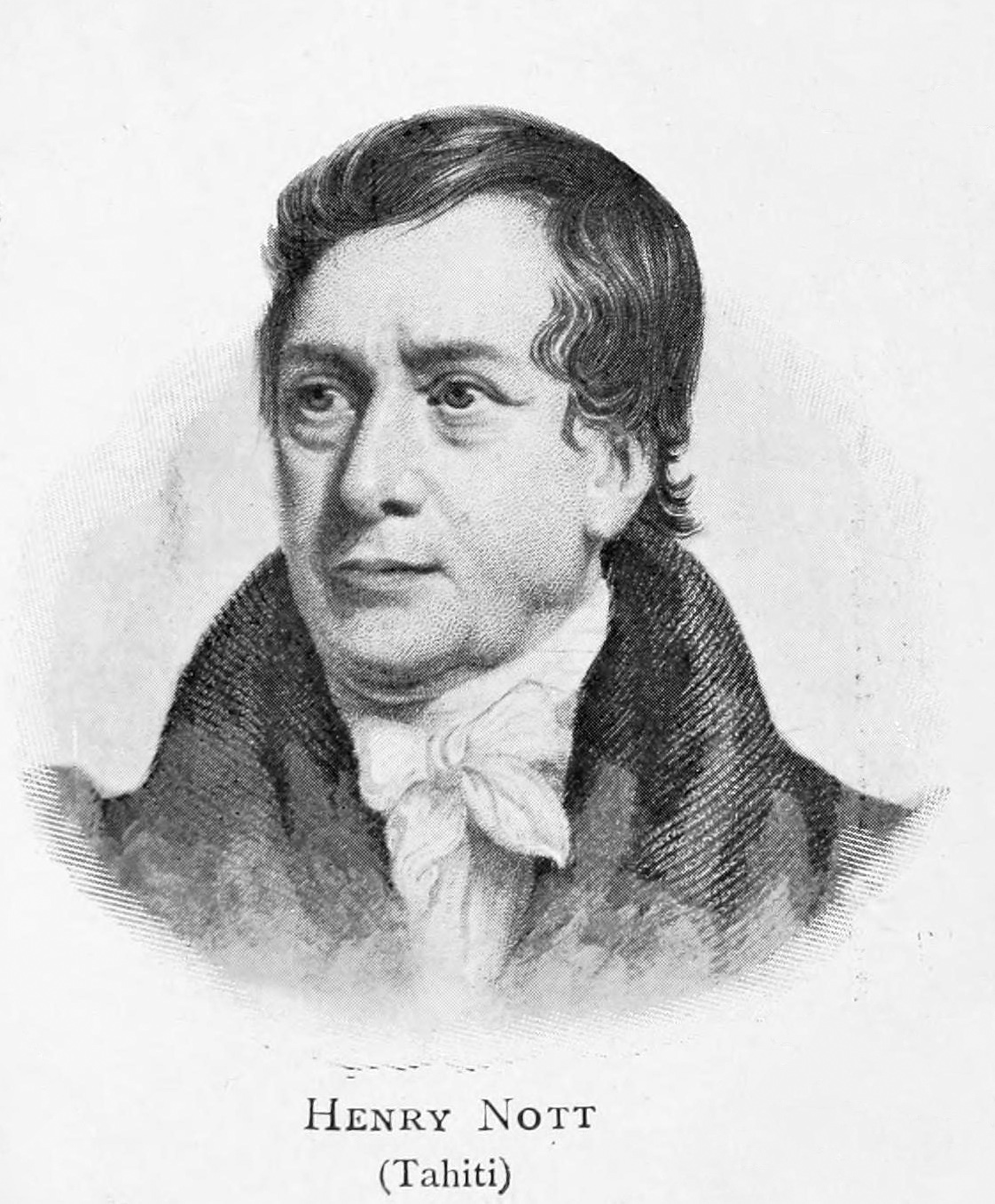 Henry Nott (1774–1844) was a British Protestant Christian missionary to Tahiti, Society Islands, Polynesia.